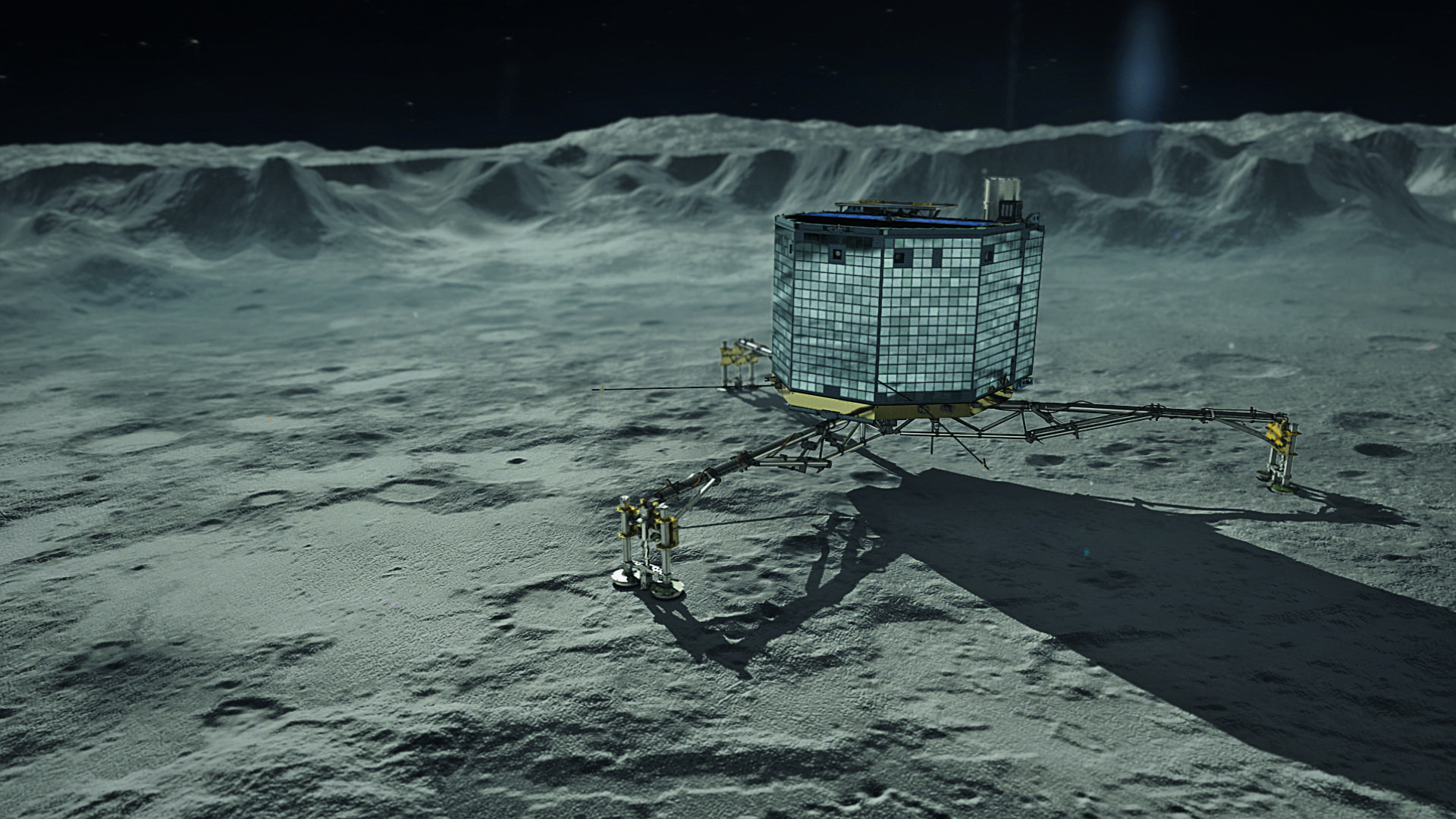 Few things could be more fascinating or demanding in the history of European space travel than the Rosetta comet mission. The lander, Philae, will separate from its parent craft on 11 November 2014, touch down on the comet and immediately fire harpoons to anchor itself on the surface. The two spacecraft will then accompany the comet on its month-long journey to the point at which it is closest to the Sun. Philae lander instruments The Rosetta mission – breaking ground in space research Videos Updates Credit: DLR (CC-BY 3.0) DEUTSCH Die Kometen-Mission Rosetta ist eine der faszinierendsten und zugleich anspruchsvollsten Unternehmungen der europäischen Raumfahrt. Am 12. November 2014 wird sich das Landegerät Philae vom Mutterschiff lösen, auf dem Kometen aufsetzen und sich sofort mit Harpunen im Eis verankern. Beide begleiten den Schweifstern auf seinem mehrmonatigen Weg zu seinem sonnennächsten Punkt. Instrumente des Philae-Landers Die Mission Rosetta - Ein Meilenstein in der Erforschung des Weltraums Videos Updates Credit: DLR (CC-BY 3.0)